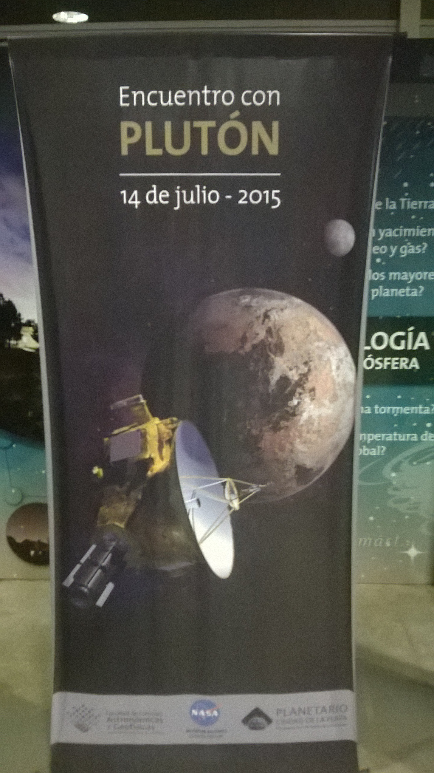 Poster of the event Encounter with Pluto at the planetarium of the University of La Plata